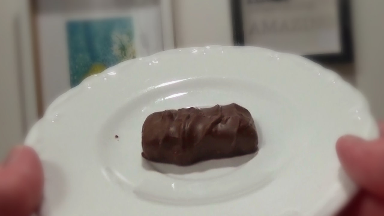 This is 1 of 2 chocolate bars of a package of Ganong Pal-O-Mine.